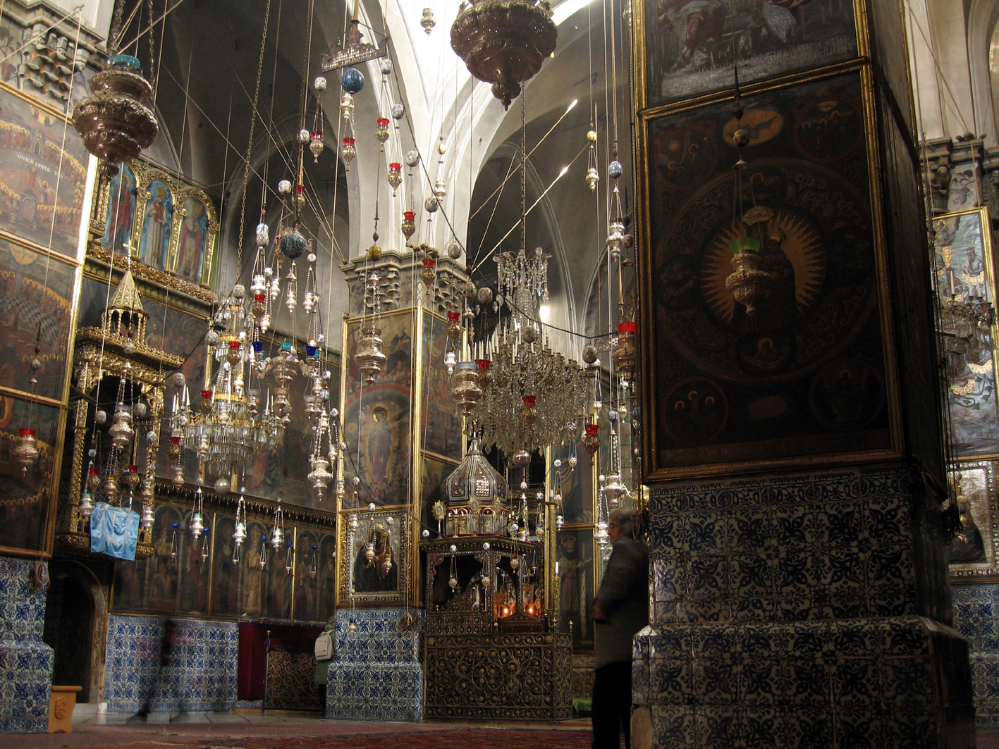 Inside the Saint James Cathedral in the Armenian Quarter of Jerusalem.